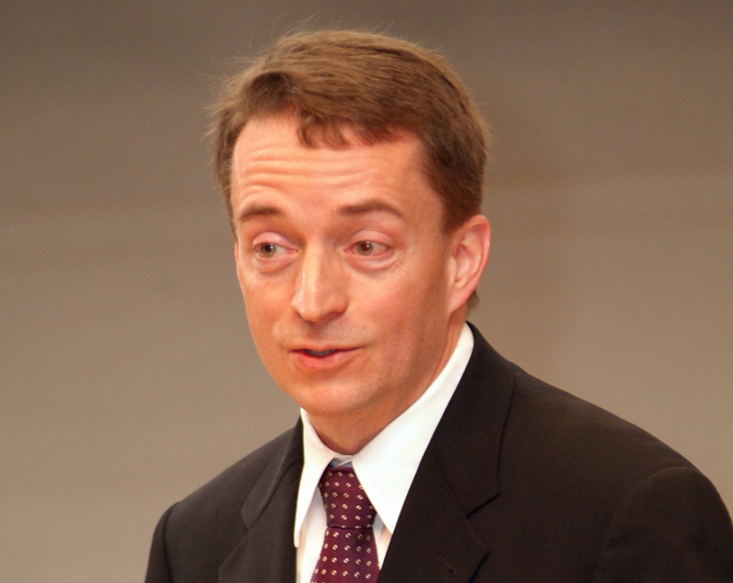 Photograph of Patrick Gelsinger, speaker at "Moore's Law at 40 Symposium", 12-13 May 2005, organized by the Chemical Heritage Foundation.